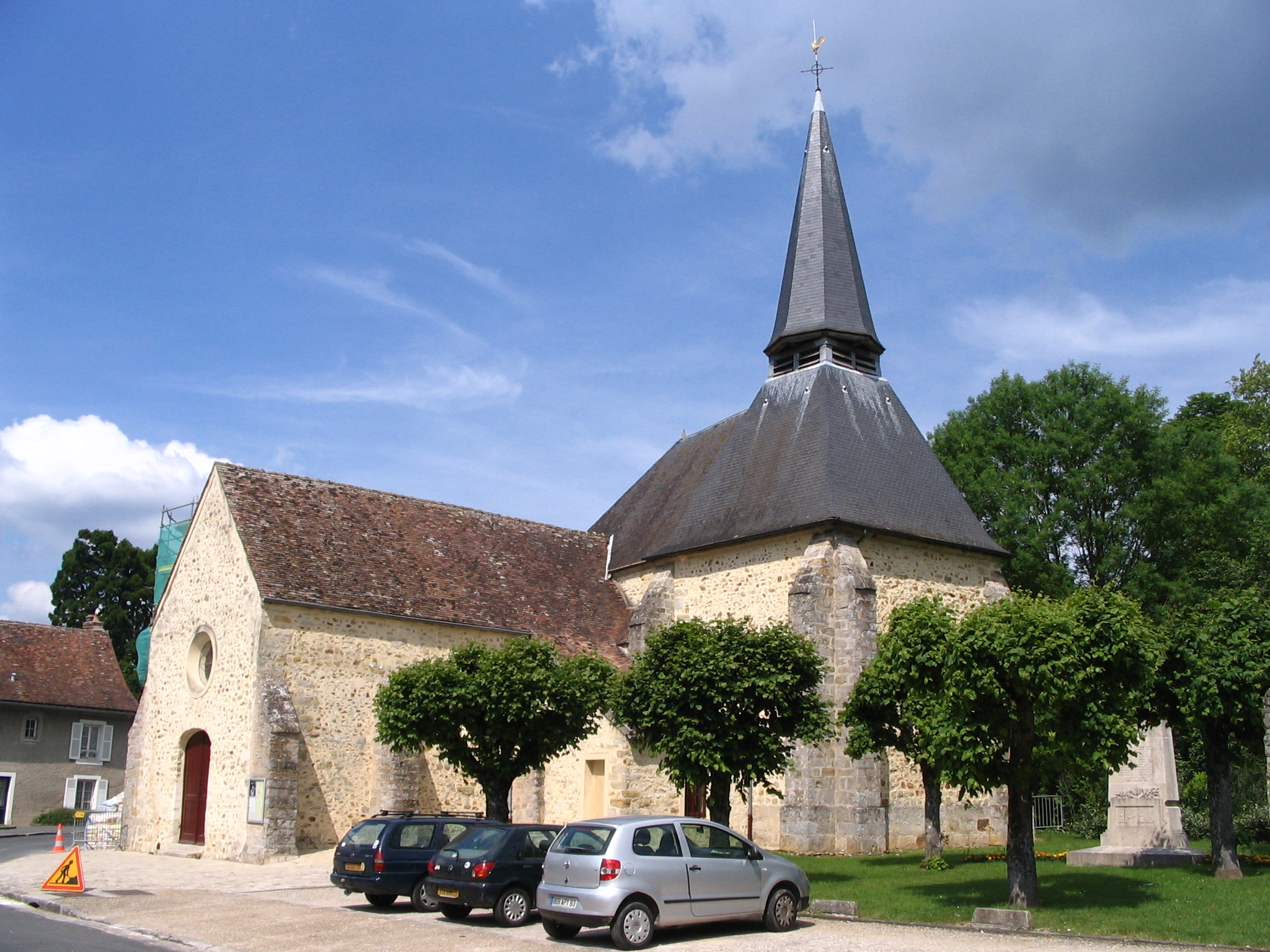 St.Peter's church, in Samoreau, Seine-et-Marne, France.